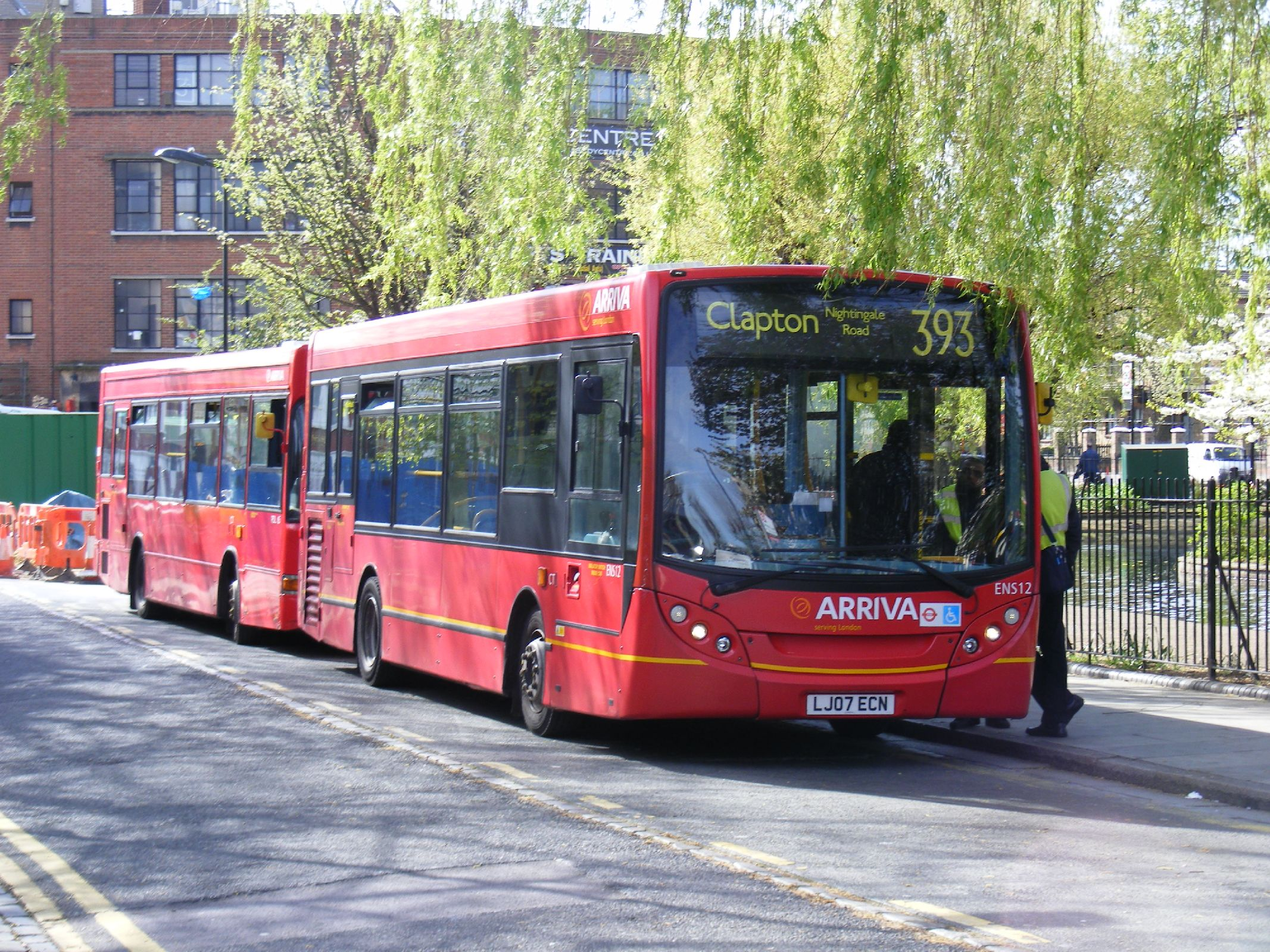 Following the departure of the Mercedes Citaros a few years ago, once again Clapton Pond is a bus terminus, following on from such routes as the 208 and 178. Destination blinds continue to read Nightingale Road.